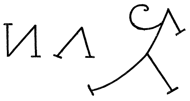 Nsibidi characters that, according to J. K. Macregor (1909), has been corrupted by the Latin letters 'N' and 'A', and is the nsibidi for "Onuaha", the name of a boy.